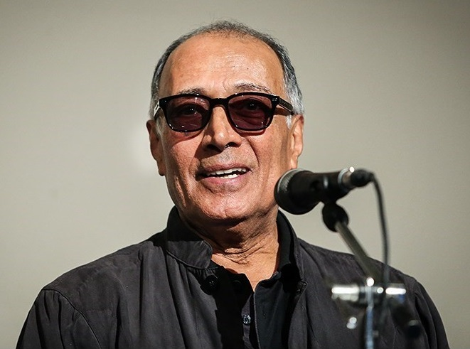 Abbas Kiarostami's Portrait